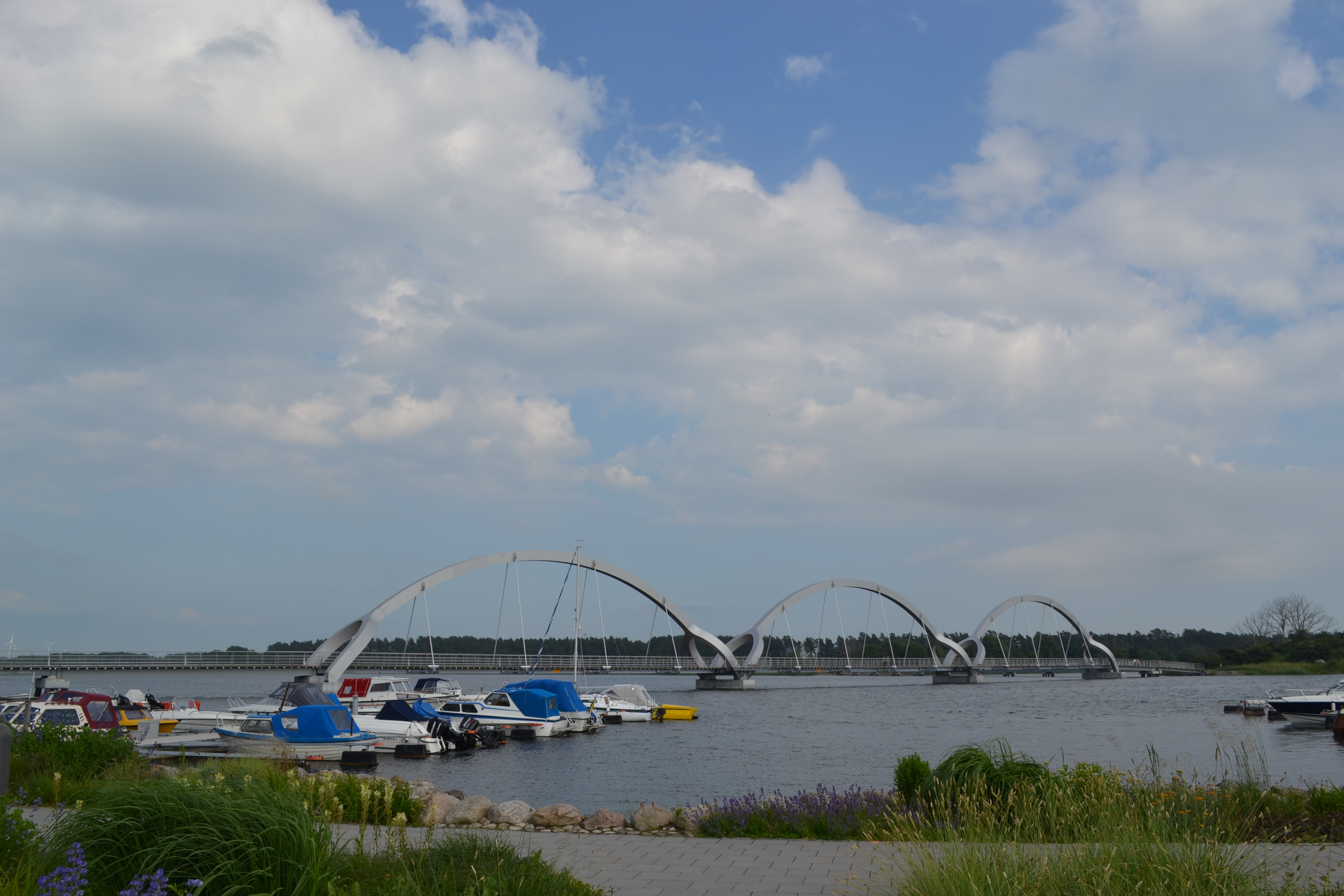 One of the longest footbridge in Europe, 760 m. Sölvesborg, Sweden